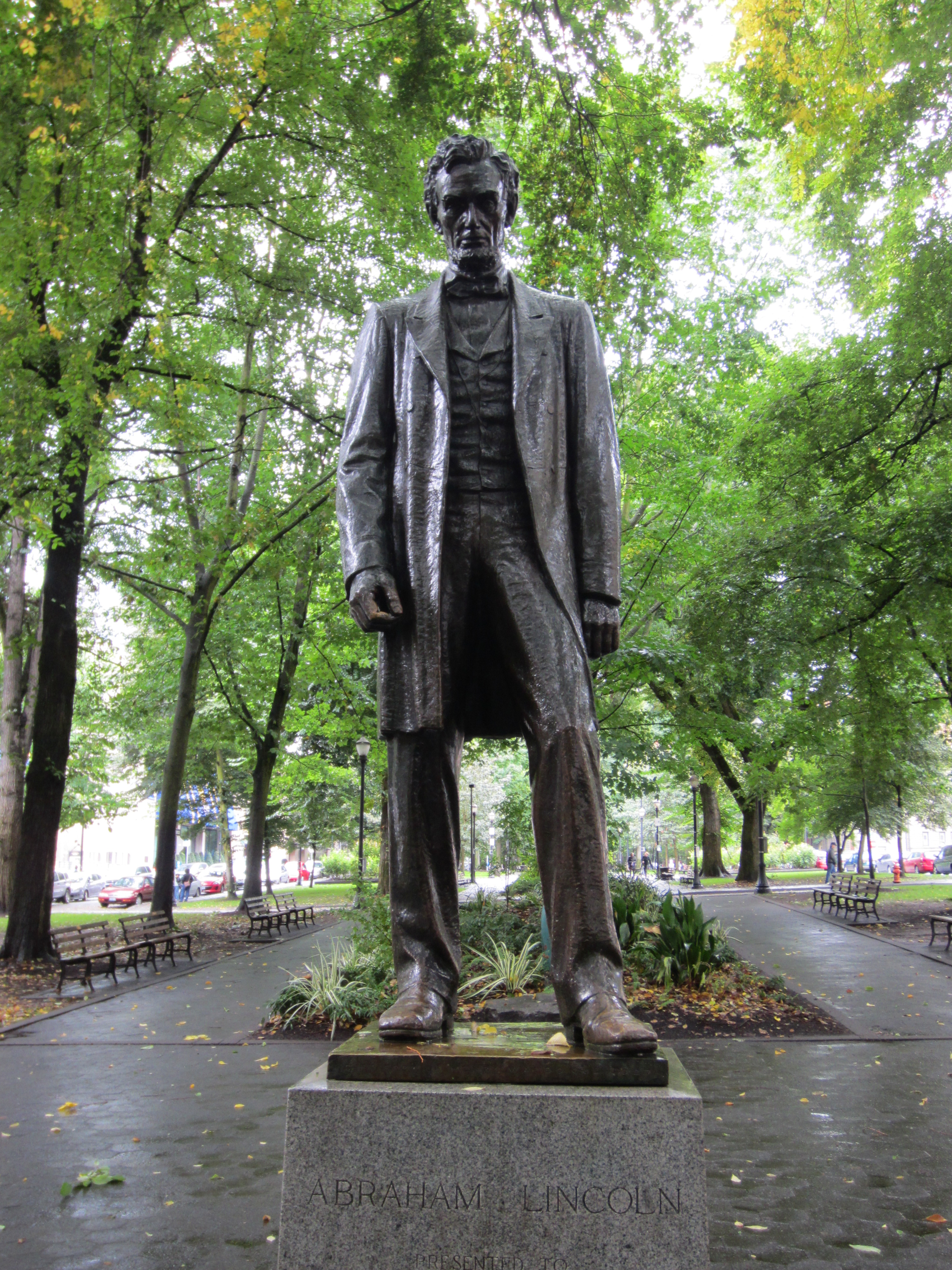 Abraham Lincoln, South Park Blocks, Portland, Oregon (2013)